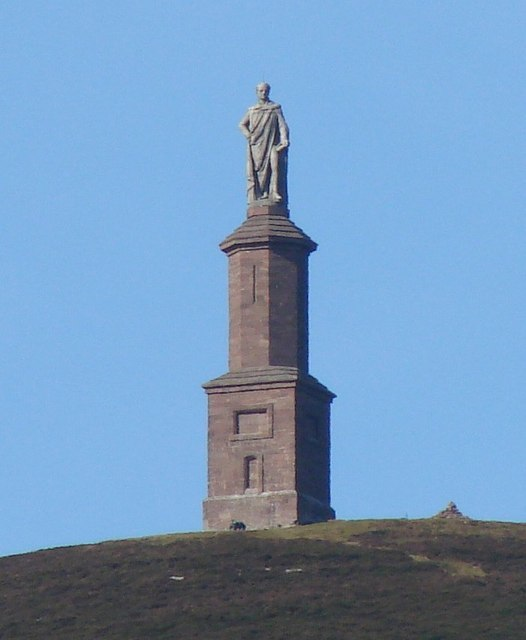 Duke of Sutherland's Monument